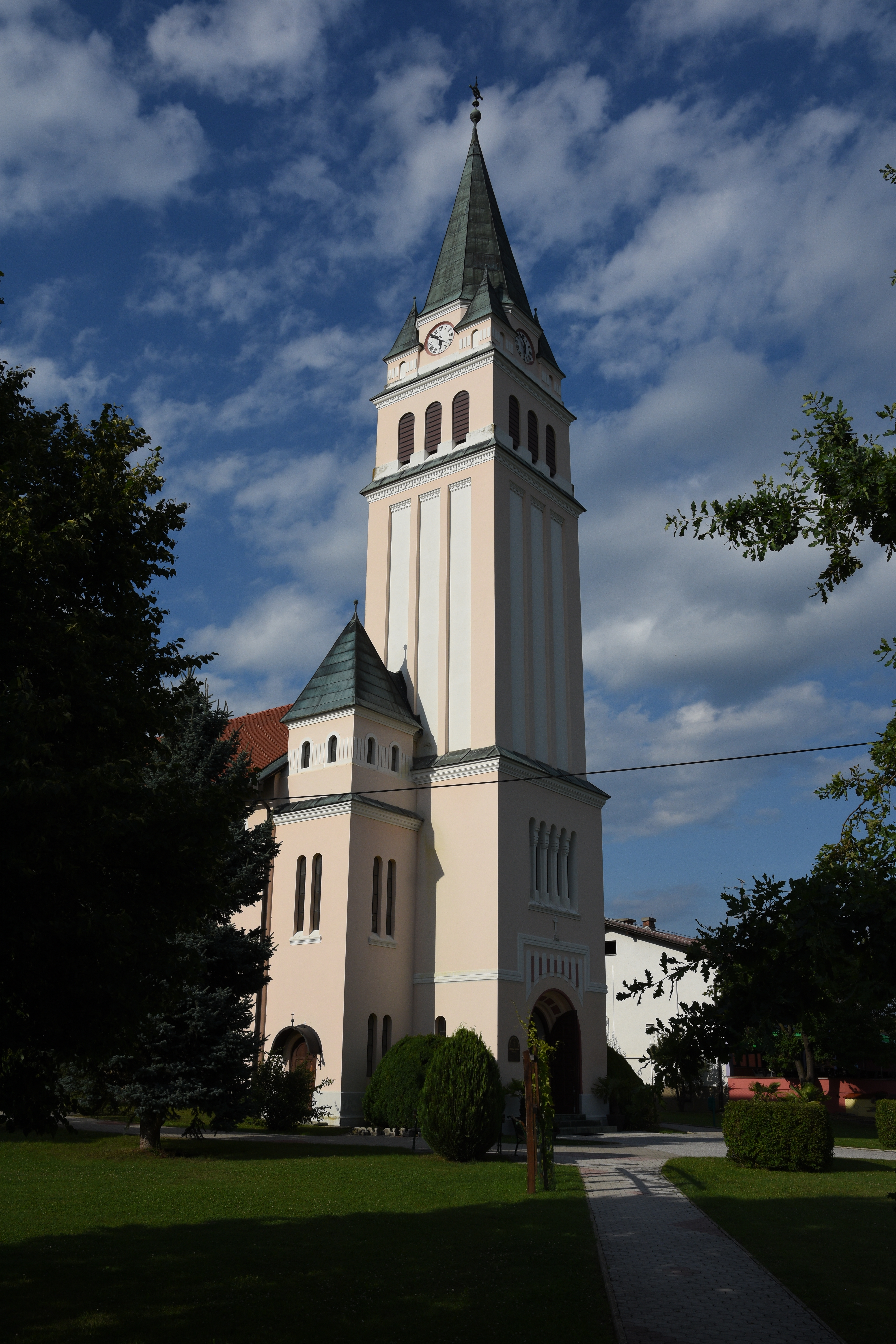 Moravske Toplice Lutheran Church